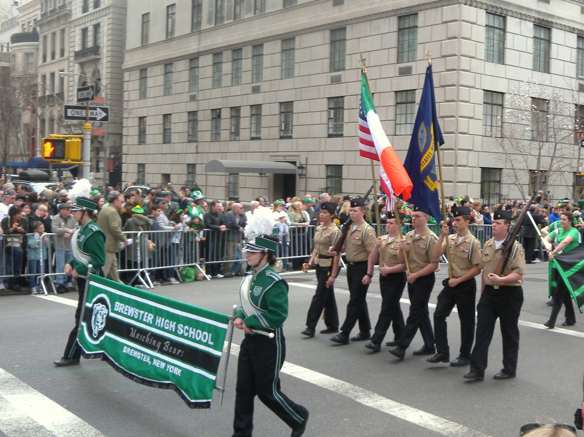 Brewster High color guard crossing 67th Street.